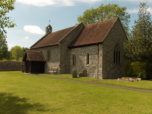 St Mary's, Milston Milston is the smallest parish that makes up the Avon Valley group of churches. That name is an exaggeration as the group only comprises six of the valley's parishes - Enford, Netheravon, Fittleton, Figheldean, Milston and Bulford.